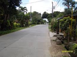 Sirang lupa st calamba laguna